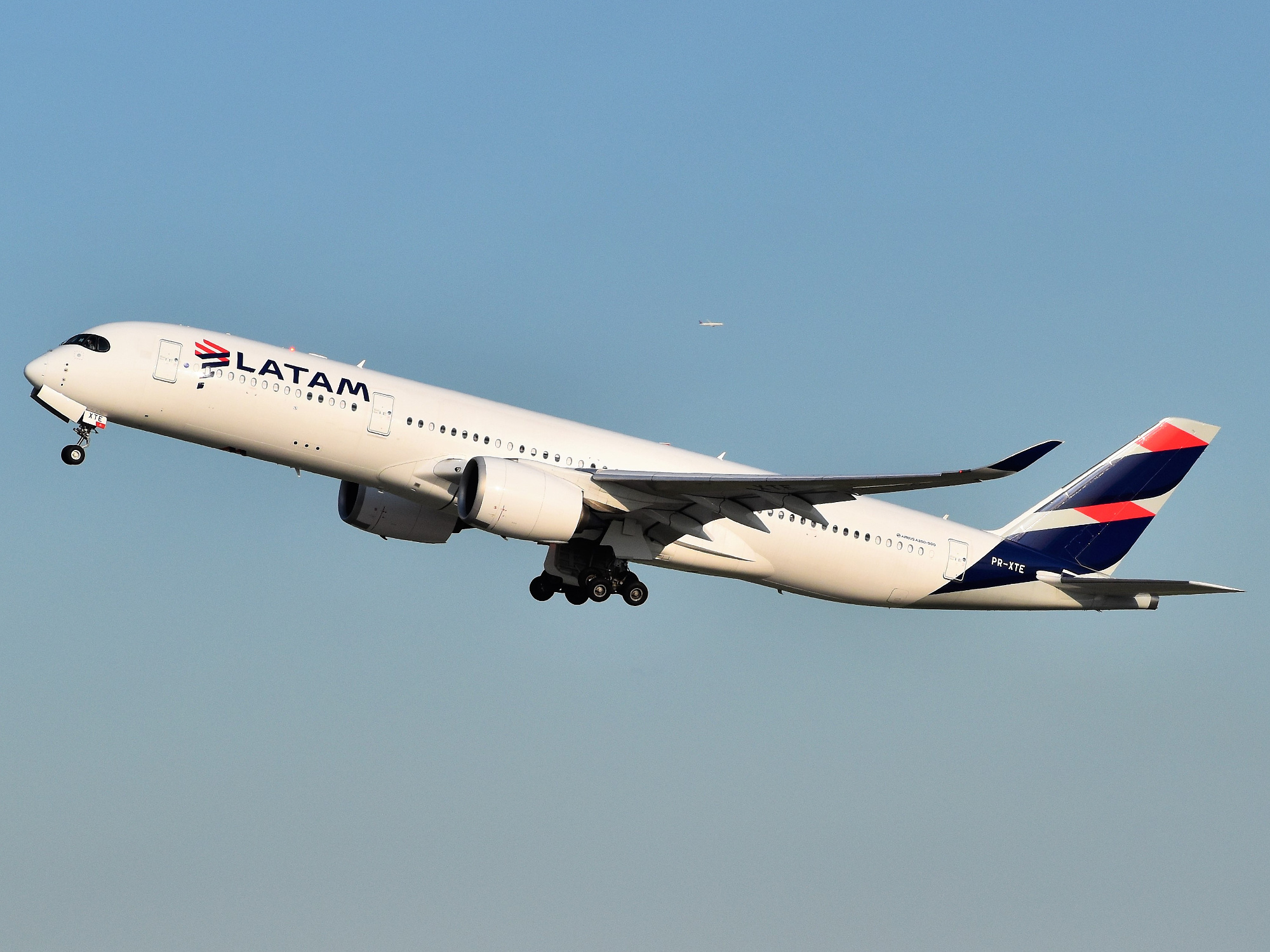 A LATAM Airlines Brasil Airbus A350-900XWB has just departed John F. Kennedy International Airport on the overnight flight to Sao Paulo Guarulhos Airport as Flight JJ8181.